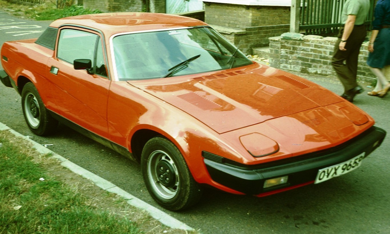 Triumph TR7 Hardtop shortly after model launch